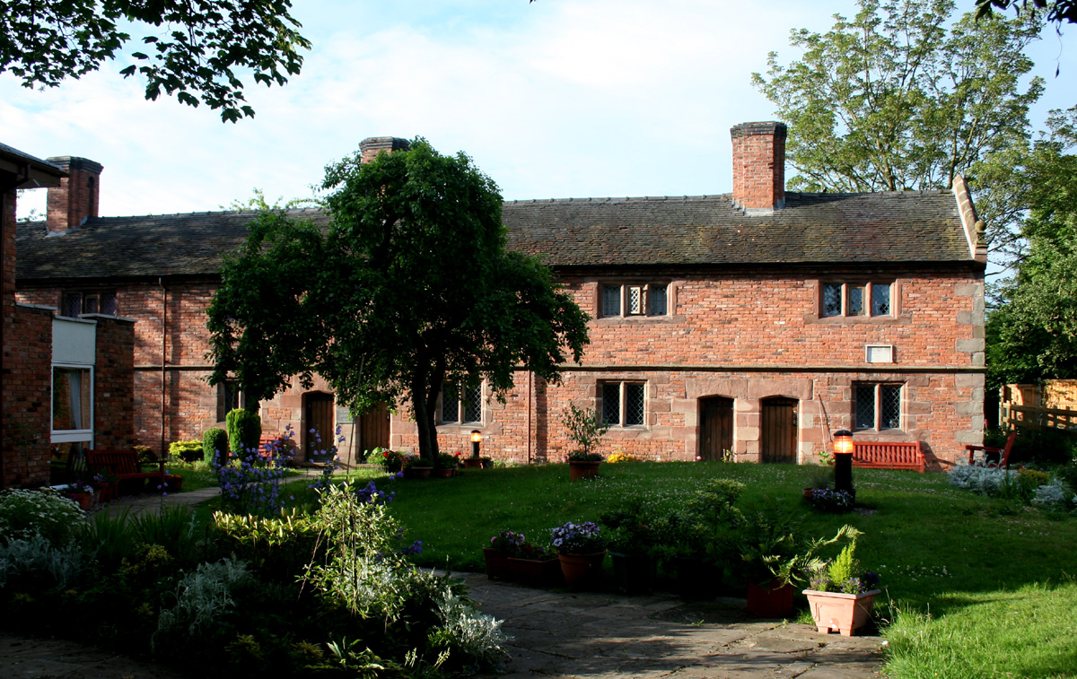 Wright's Almshouses, Nantwich, Cheshire; now on Beam Street, formerly on London Road